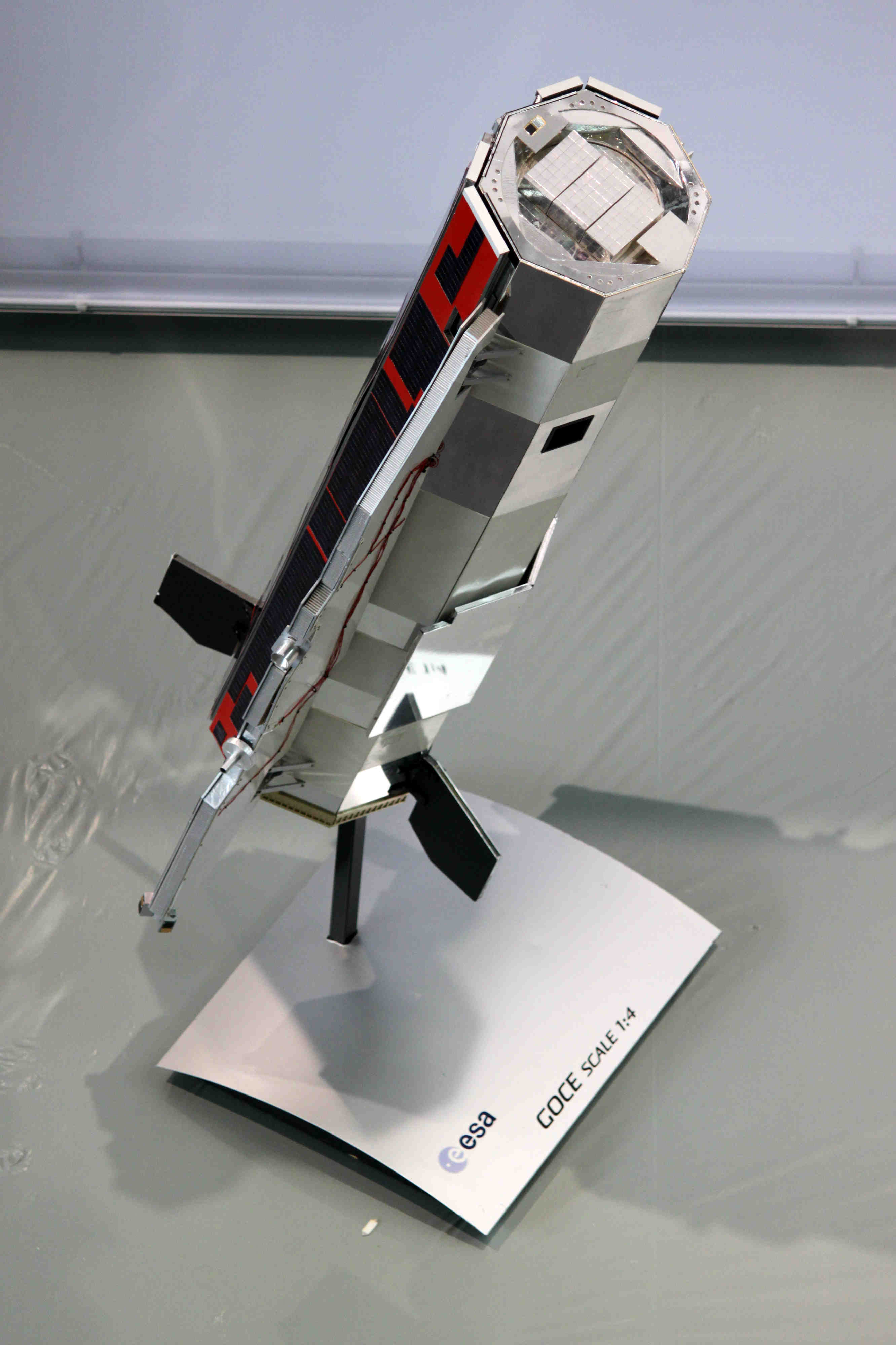 Image: DLR/Alejandro Morellon (CC-BY 3.0)